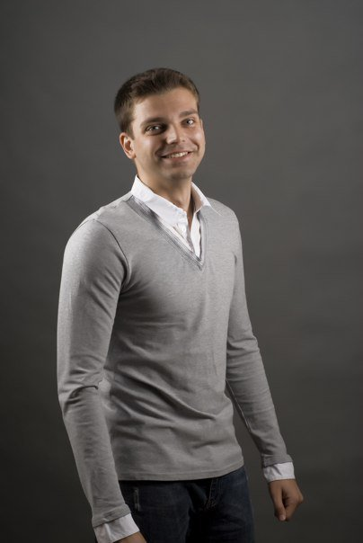 The company was founded in 2004 by the young entrepreneur Hristo Tenchev (CEO). / Photo: XS Software